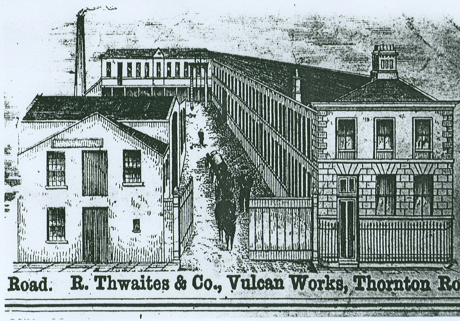 Lithograph of Vulcan Iron Works, Thornton Road, Bradford. The works was founded by Robinson Thwaites. In 1858 the company was named R. Thwaites & Co.